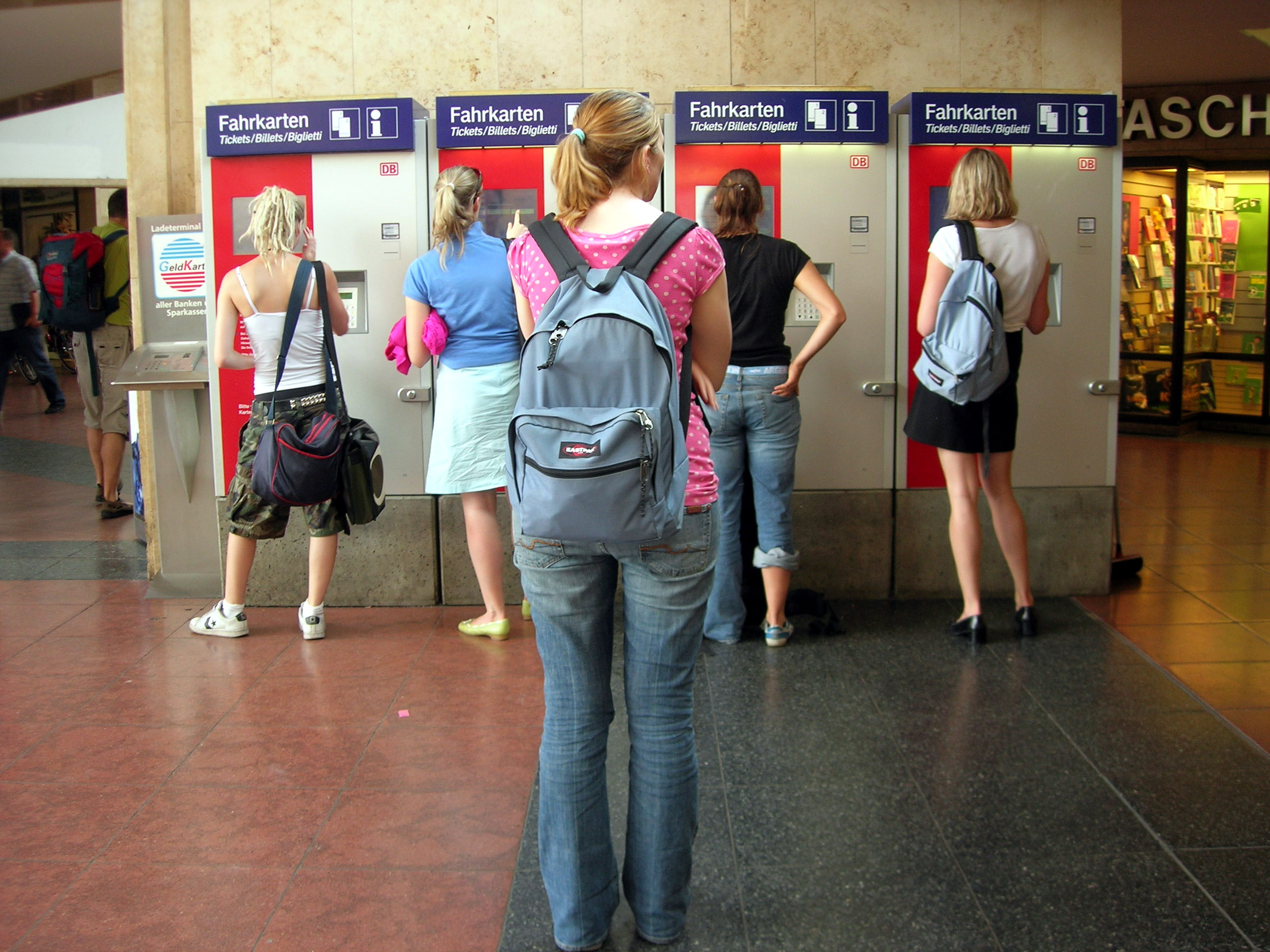 At the "women only" ticket machines in Heidelberg railway station.